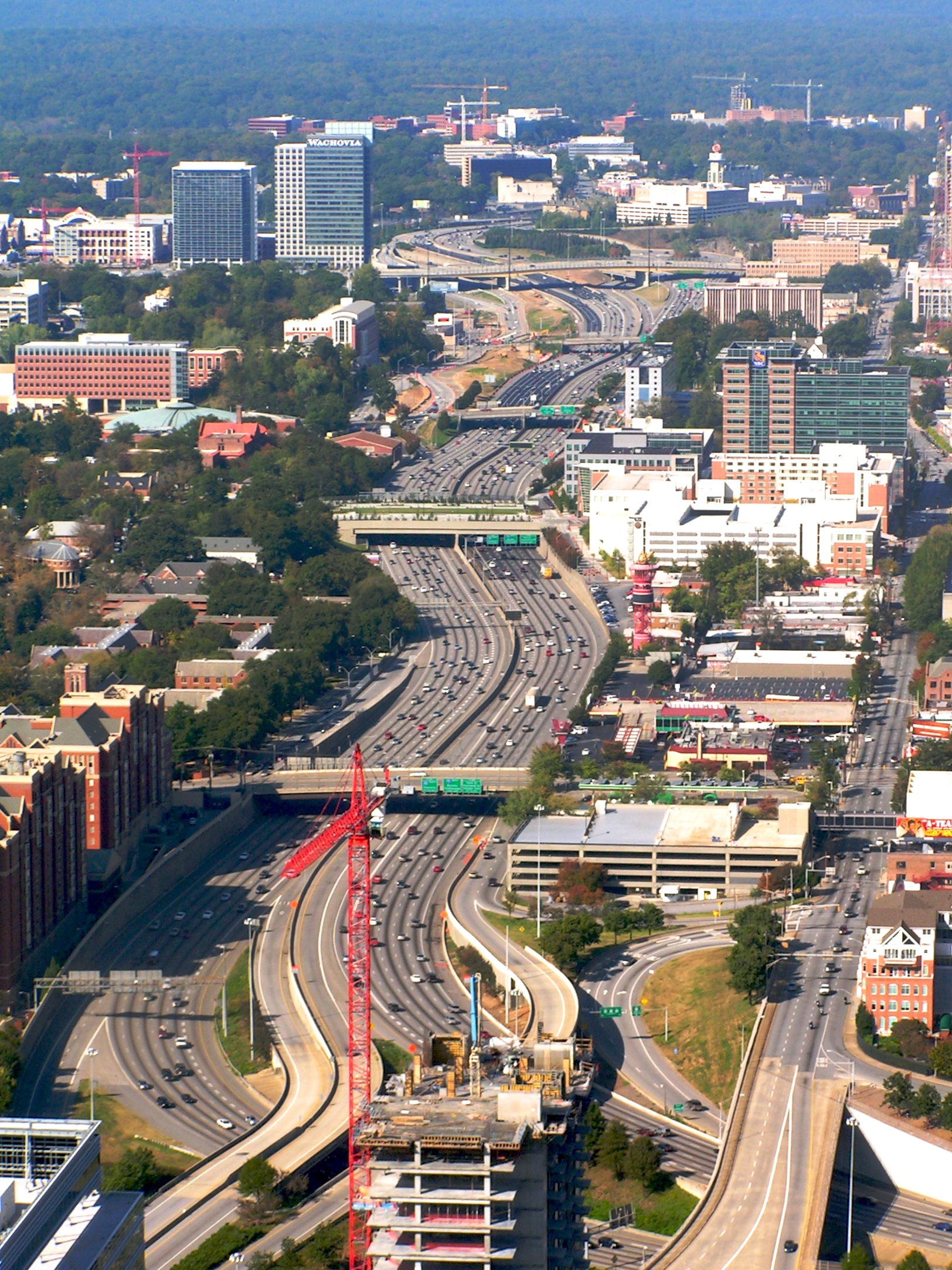 Aerial view of the Downtown Connector in Atlanta, Georgia.